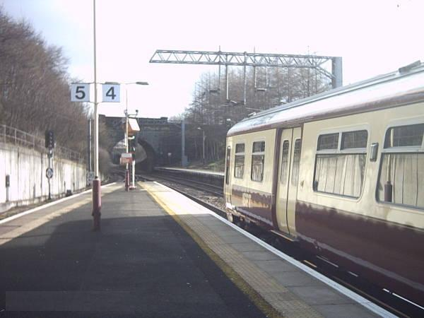 British Rail Class 320